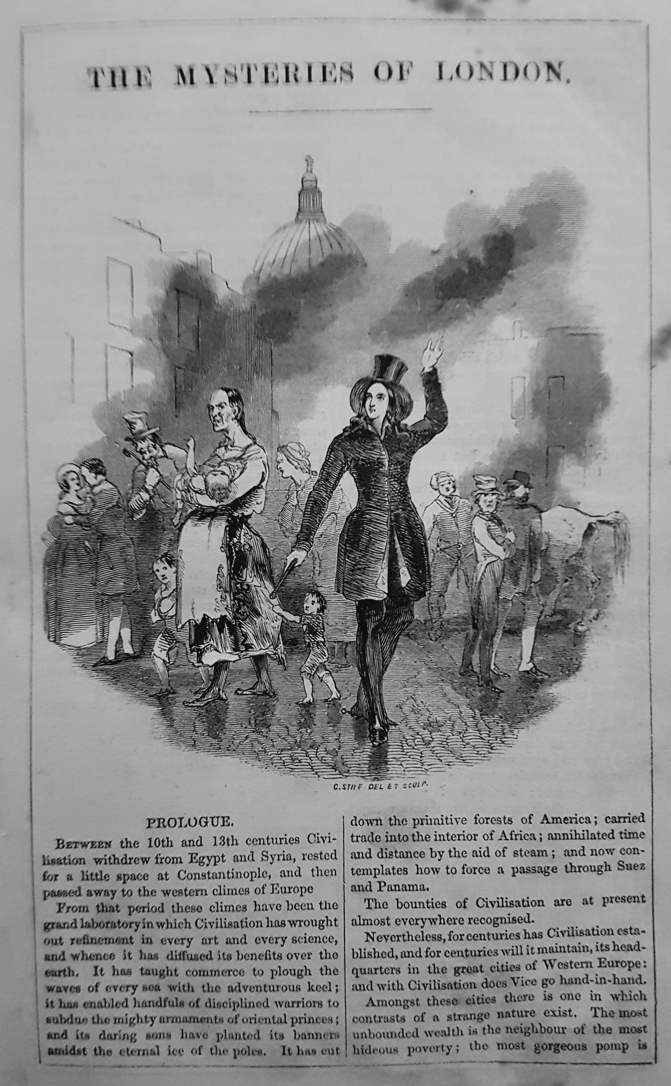 Title Page to the First Edition of The Mysteries of London (1844-45)